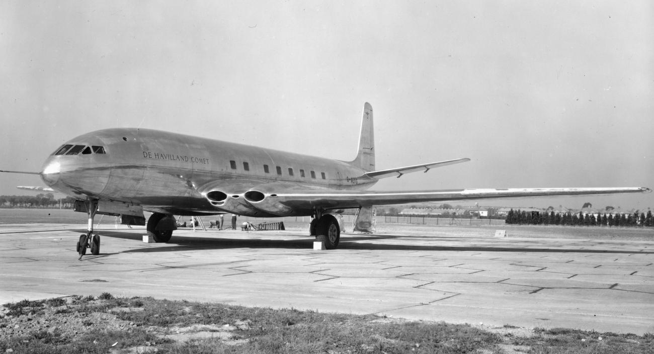 De Havilland Comet, DH Comet 1. The first de Havilland DH106 Comet prototype at Hatfield.